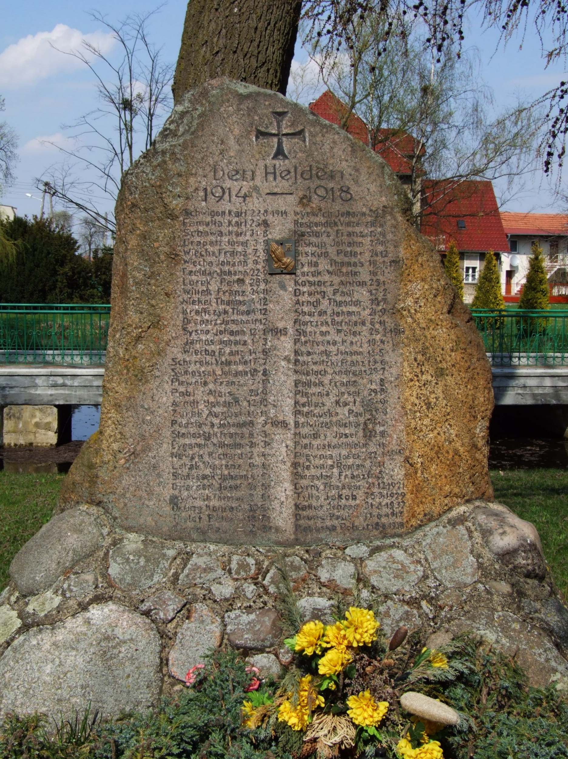 World War I monument in village Chocianowice (Kotschanowitz), Upper Silesia Ślůnski: Dynkmal ku pamjyńći mjyszkańcůw, kerzy padli we Wjelgyj Wojńe. Wjeś Chocianowice (Choćianůwicy, Kotschanowitz), Gůrny Ślůnsk